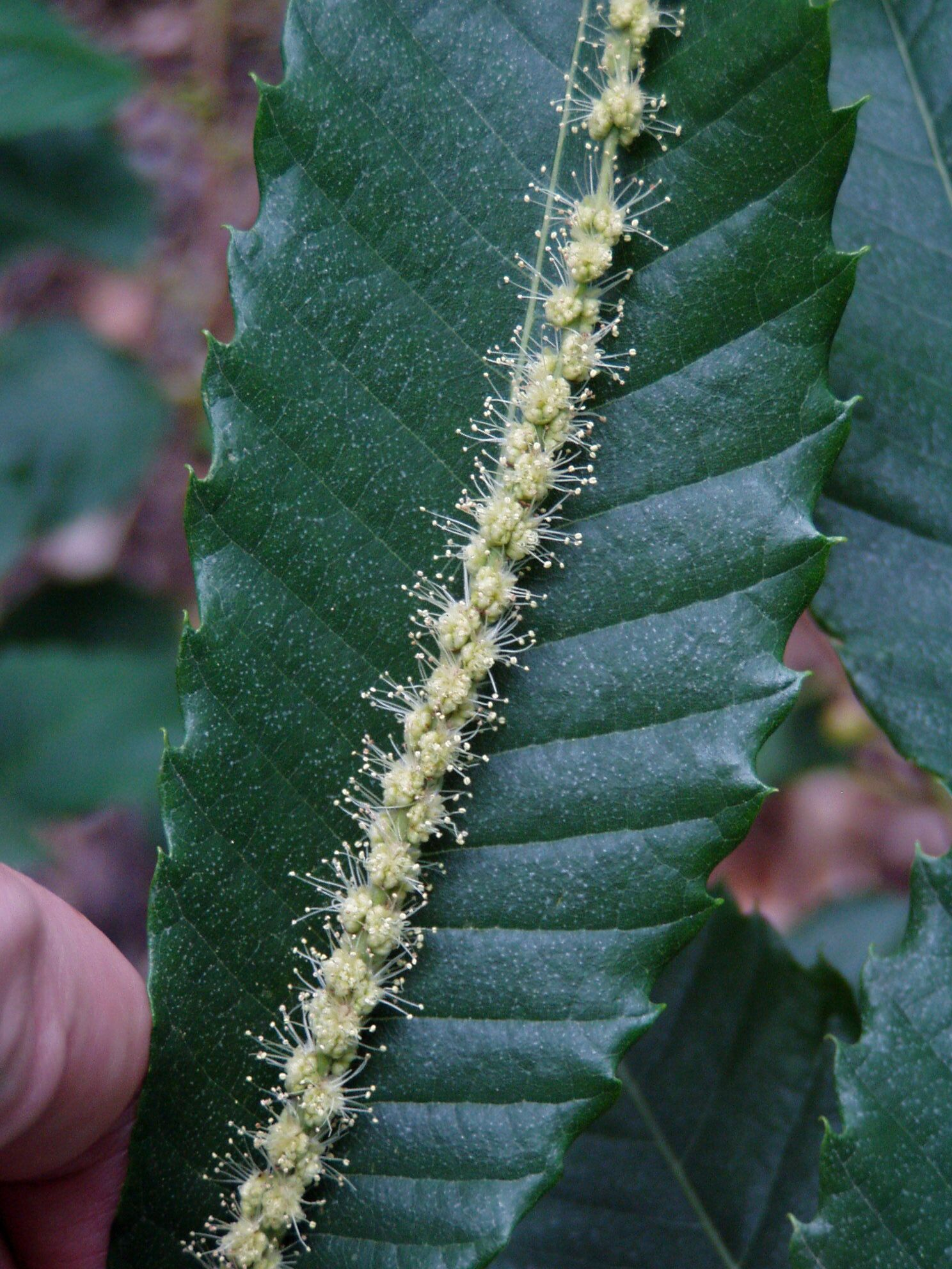 Inflorescence of Castanea sativa, Kitzeck im Sausal, Styria, Austria